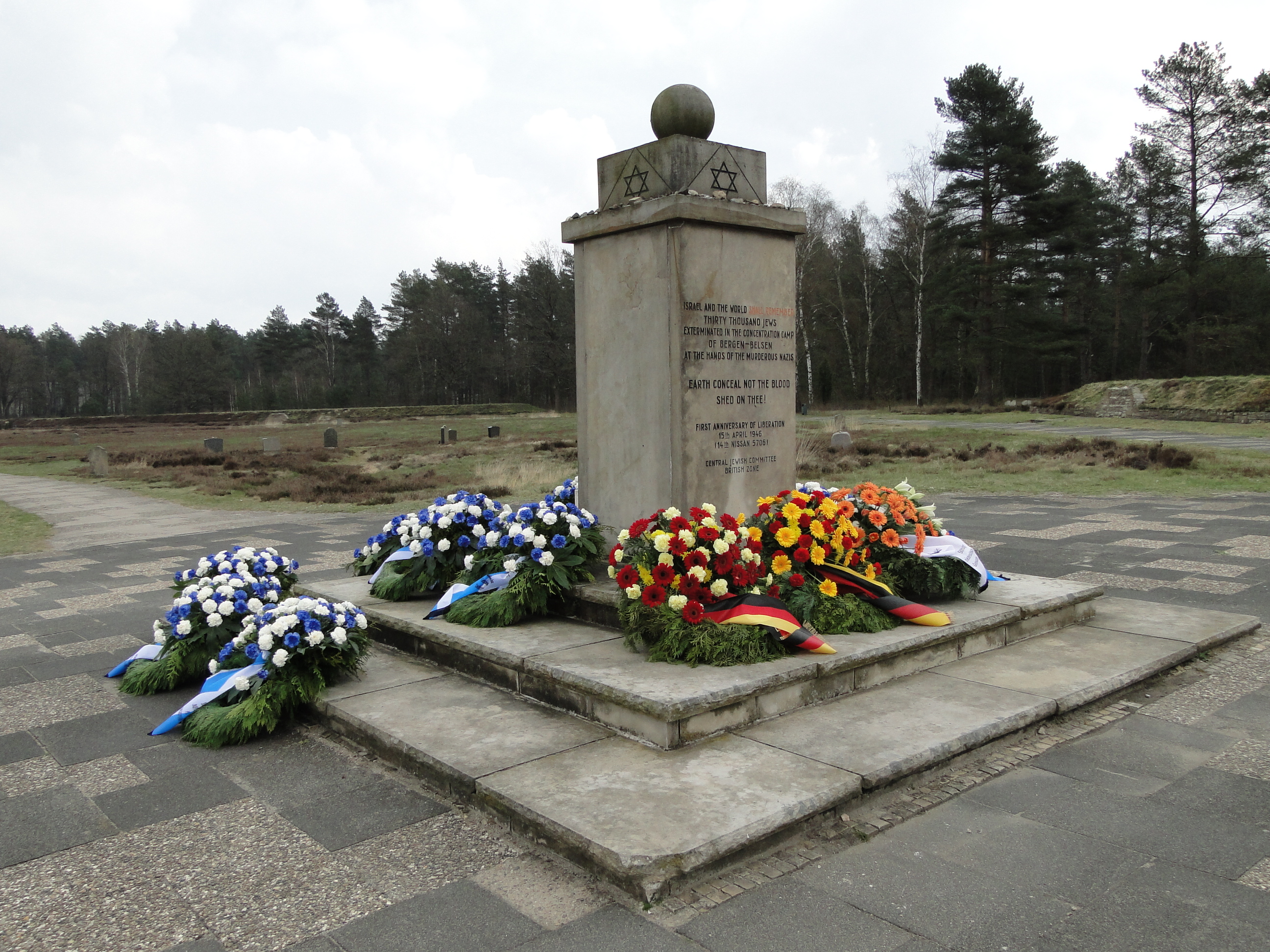 The Jewish memorial site on the grounds of the former Bergen-Belsen concentration camp, with wreaths from the ceremony on Liberation Day, April 15, 2012